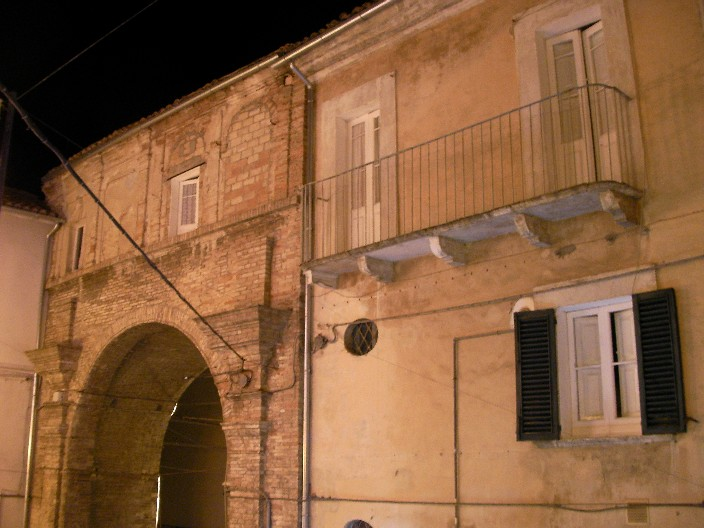 The Arco 'Ndriano to Atessa at night